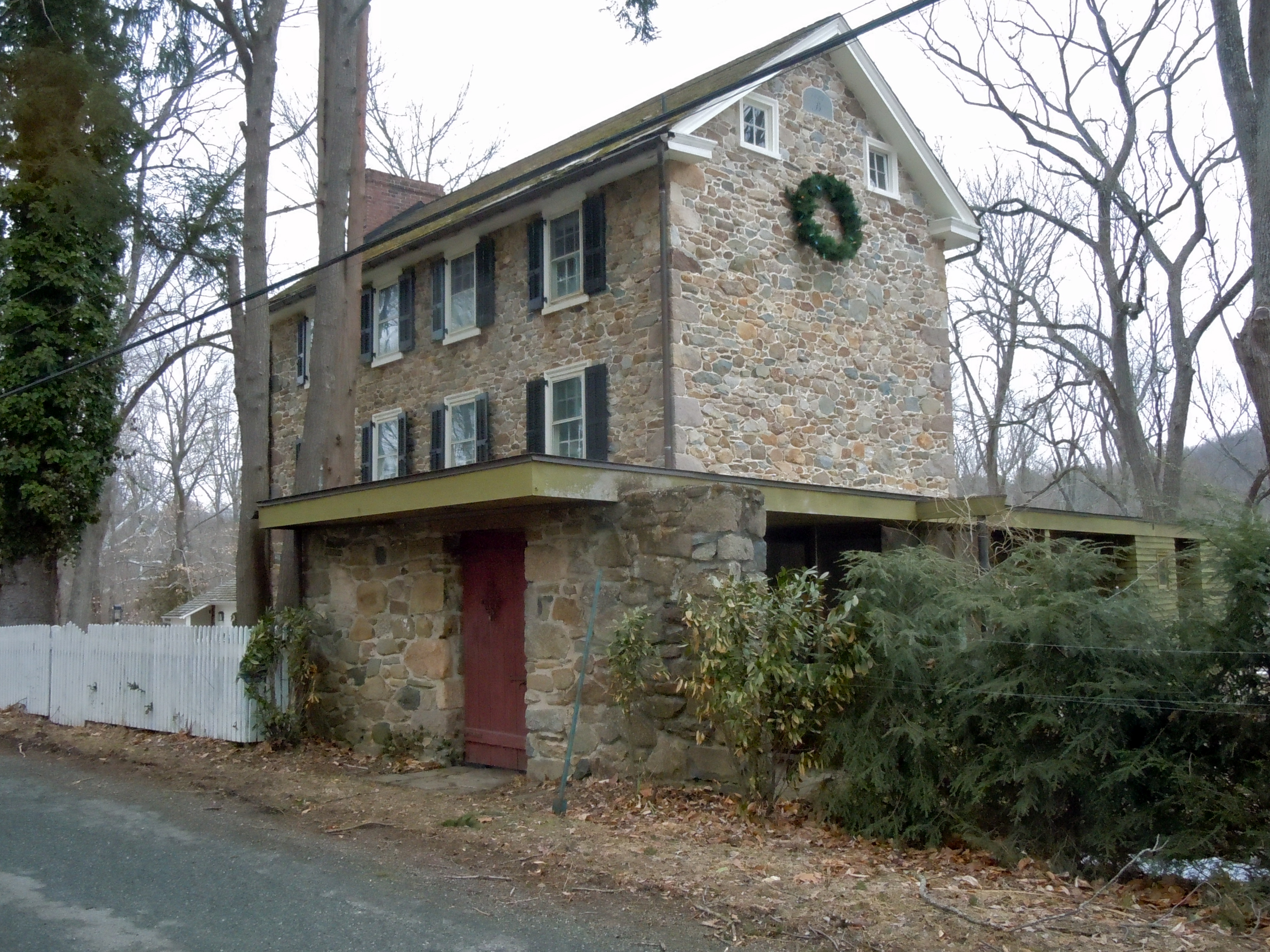 House in Middle Pickering Rural Historic District, on the NRHP since September 6, 1991. HD is bounded by Pikeland (south) , Yellow Springs (south), Merlin (west) , Church (east) , and Pickering Roads (north) in Charlestown Township, Chester County, Pennsylvania, extending into East and West Pikeland Townships in northern Chester County. This particular house is on Pickering Road, just north of the Oskar Stonorov House (listed separately on the NRHP and also part of the district). I suspect the house was owned by urban planner Edmund Bacon (father of Kevin Bacon) with part of it added by Stonorov (see horizontal porch on the right and modern style rooms on the back of the house). Datestone near the peak of the roof says "1823 B"